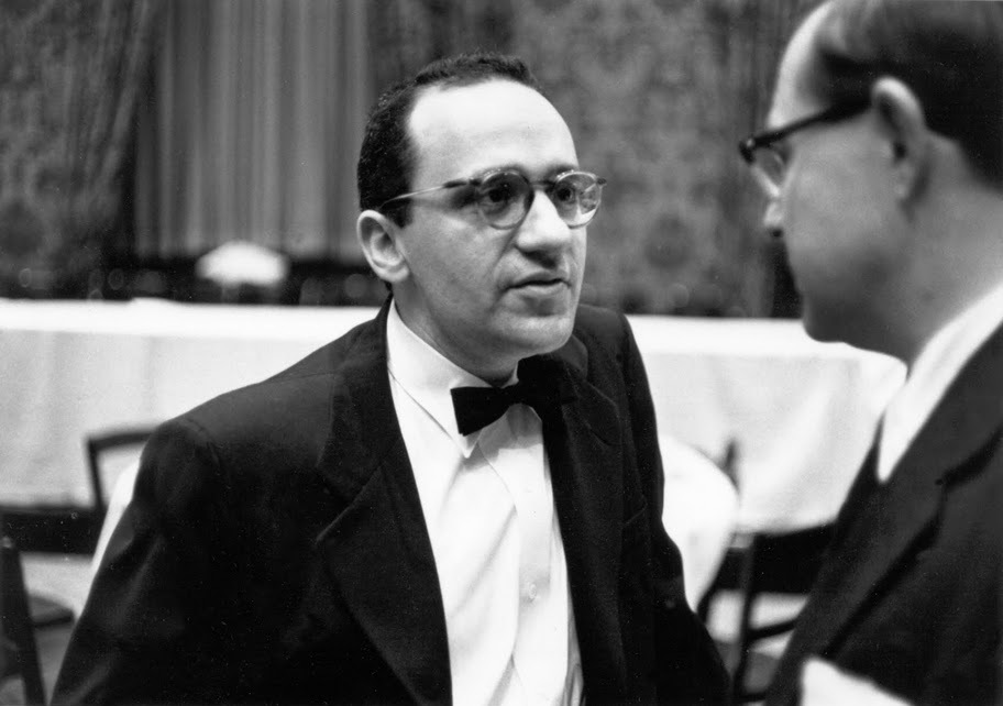 Rothbard